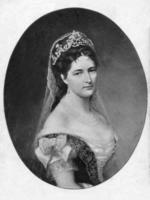 Archduchess Clotilde of Austria, Princess of Bohemia and Hungary (1846–1927), née Princess of Saxe-Coburg-Gotha.